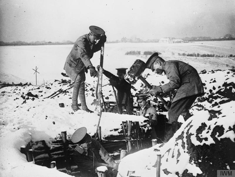 The British Army on the Home Front, 1914-1918 Troops of the 1st Battalion, County of London Volunteers (United Arts Volunteer Rifles) working on London's outer defences in the winter. Woldingham, 1916.